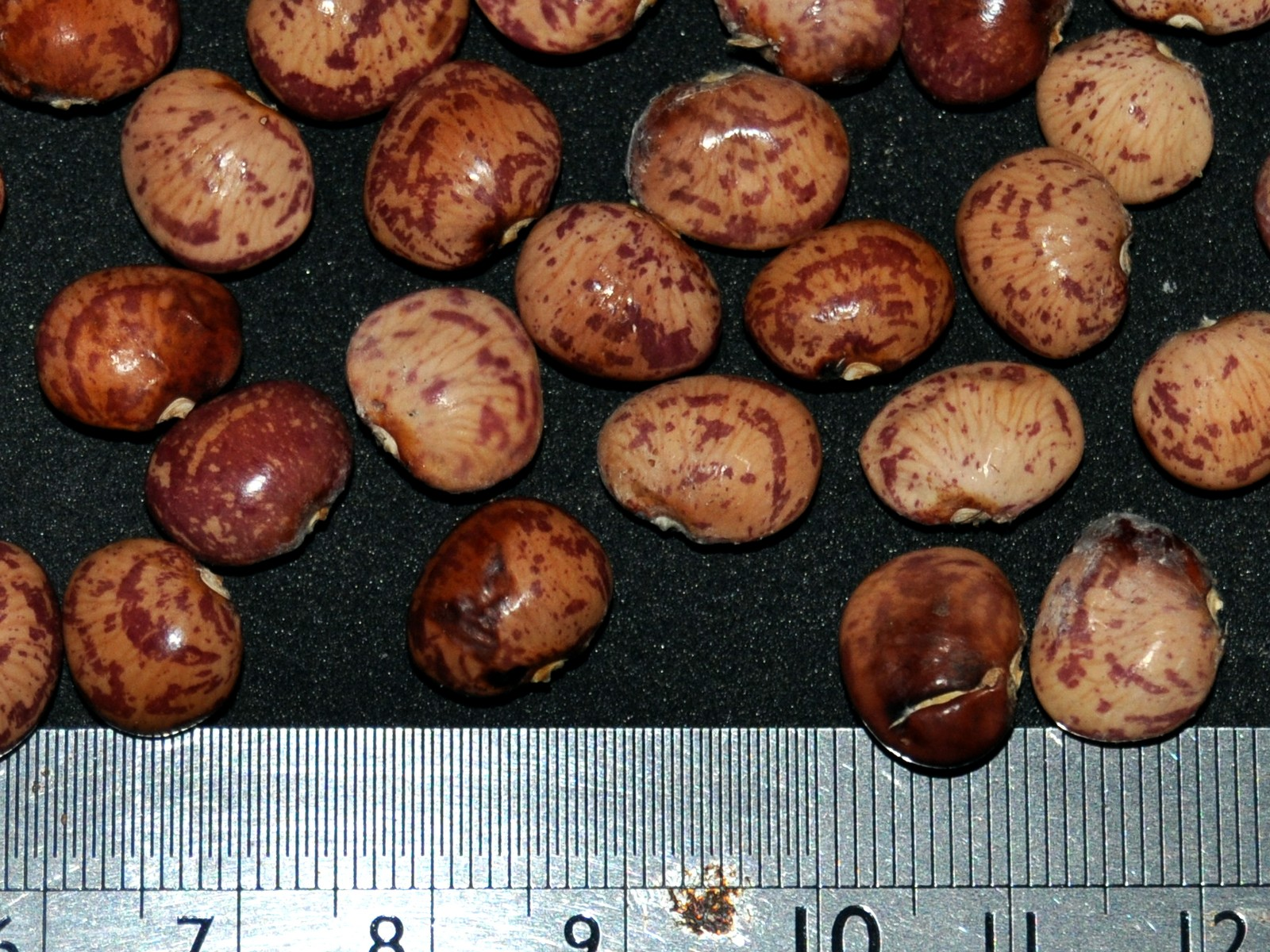 Dry seeds of Java bean Phaseolus lunatus. From Darmaga, Bogor, West Java, Indonesia.